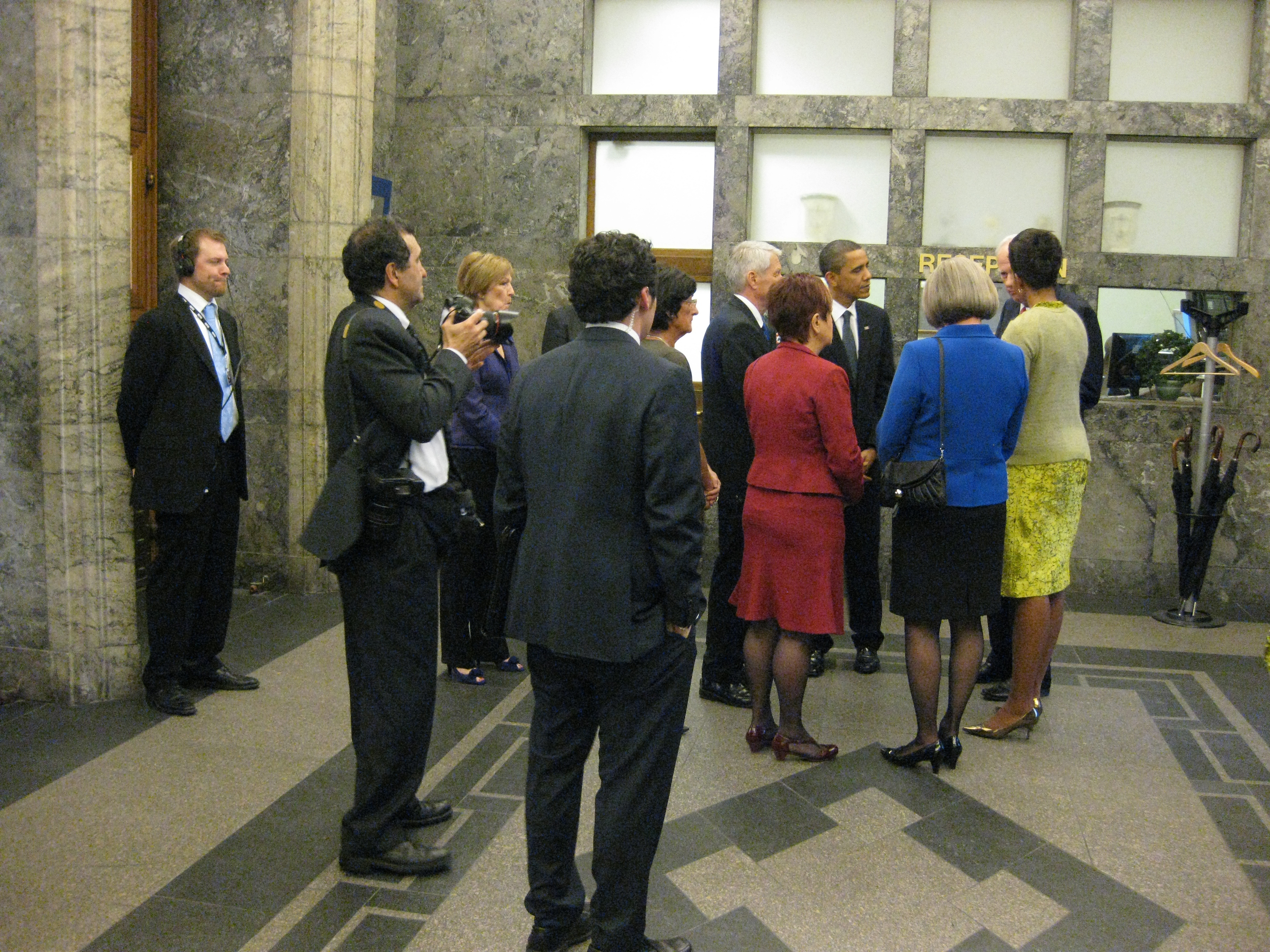 Pete Souza in action, Nobel 2009, Oslo: Souza (with camera second from left), the chief White House photographer, looks toward U.S. president Barack Obama and other dignitaries on the day Obama received the 2009 Nobel Peace Prize.